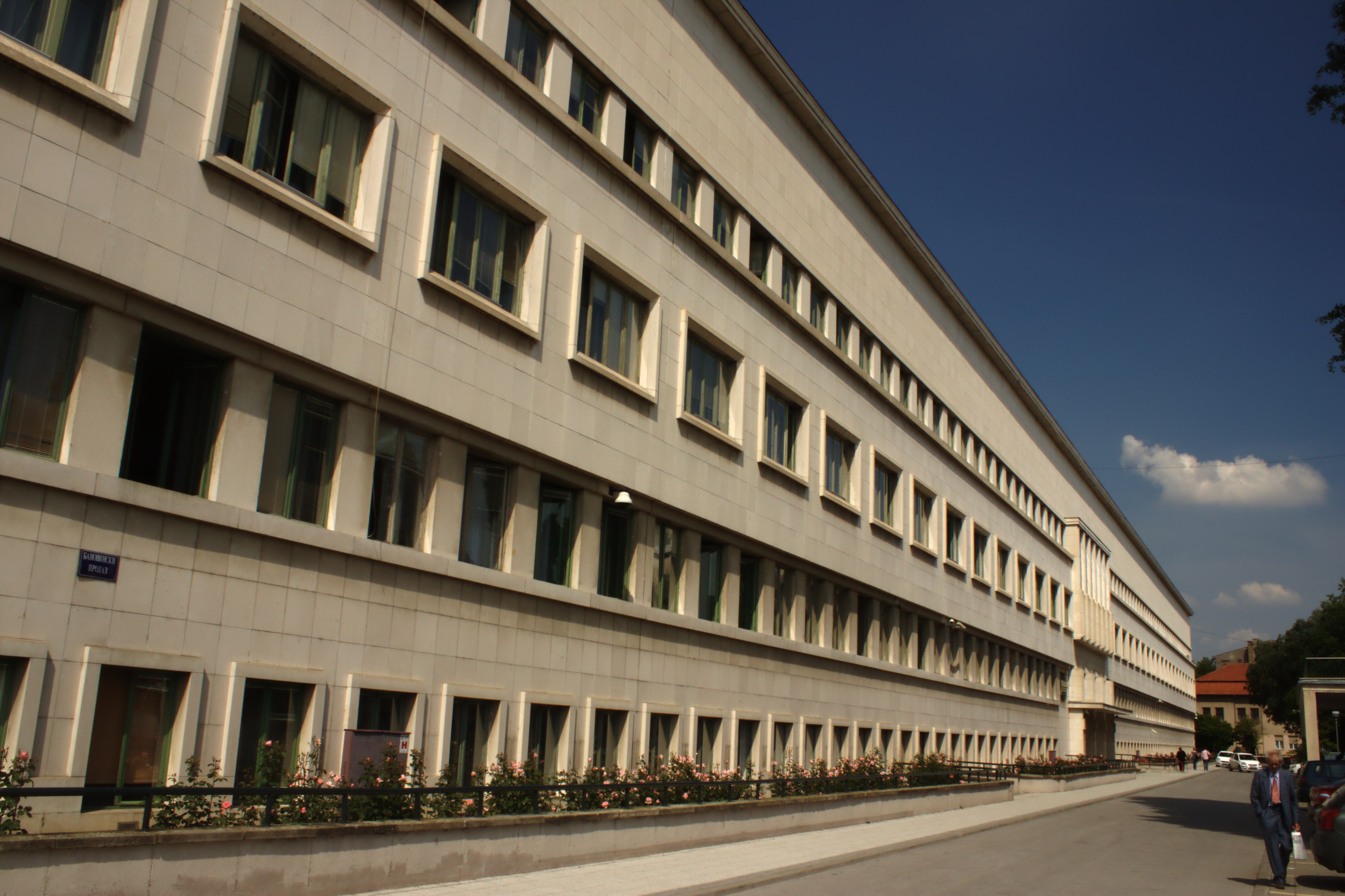 A view of the southern facade of the Vojvodna government building also known as the Banovina building, Novi Sad, Serbia